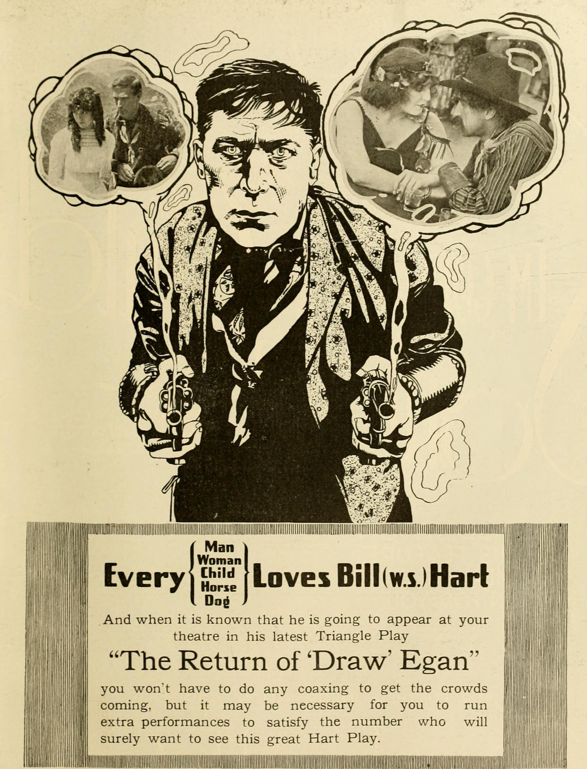 Advertisement in Moving Picture World for The Return of Draw Egan (1916).